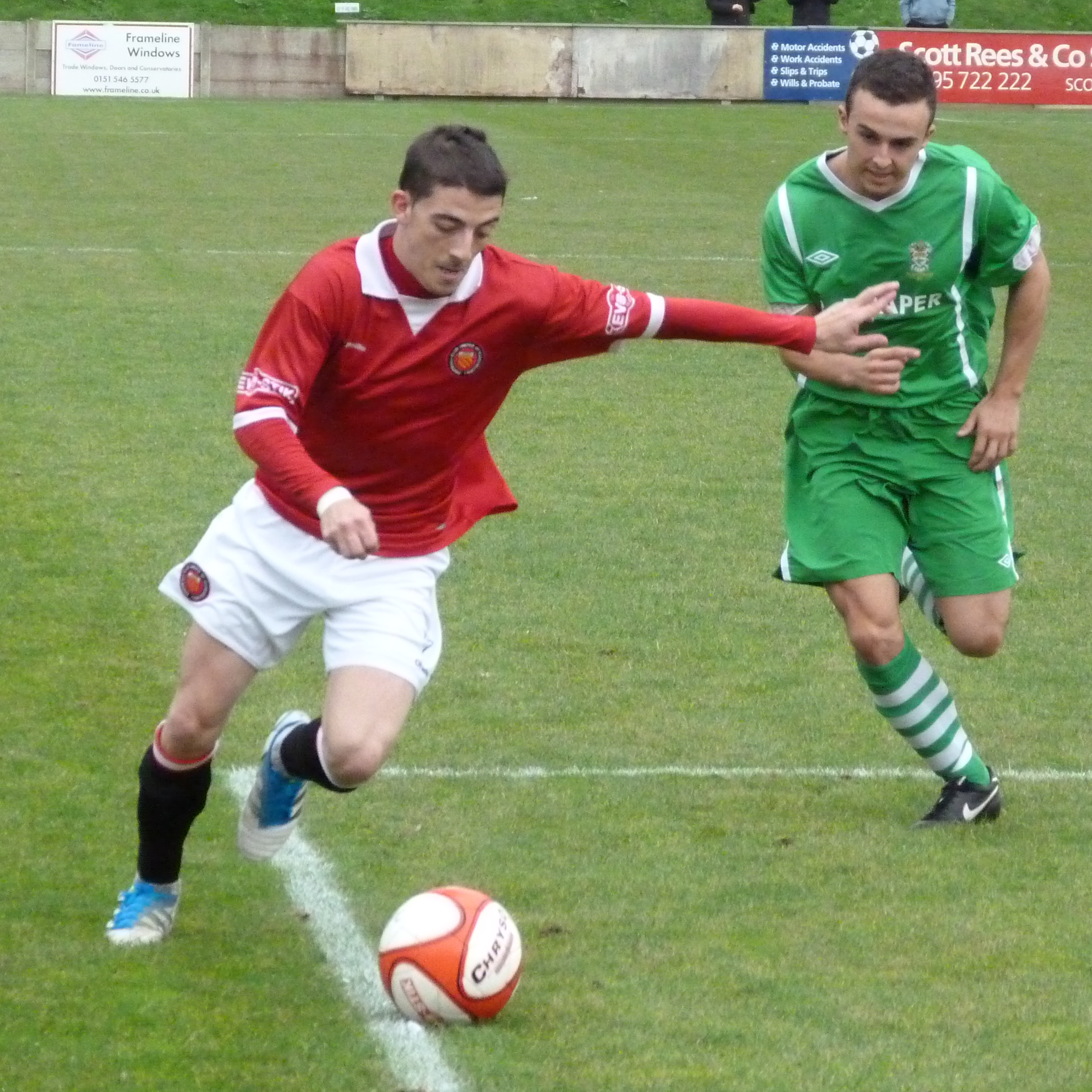 Carlos Roca – FC United, 2011